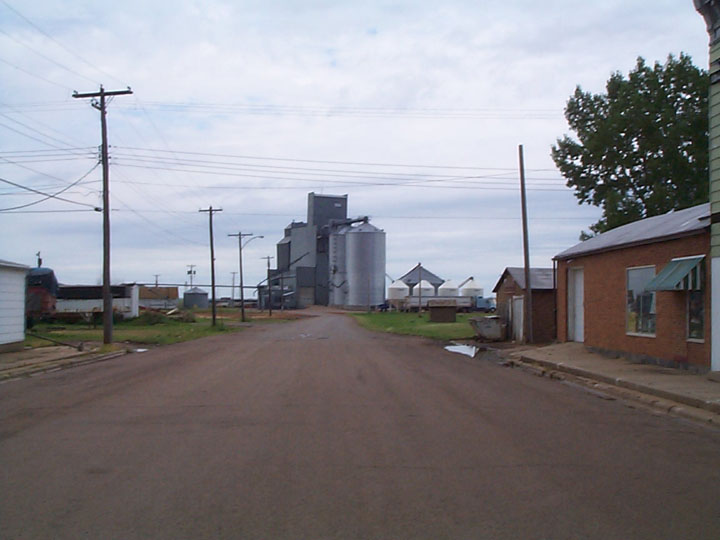 A view down the main road looking toward a grain elevator in New Leipzig, North Dakota.